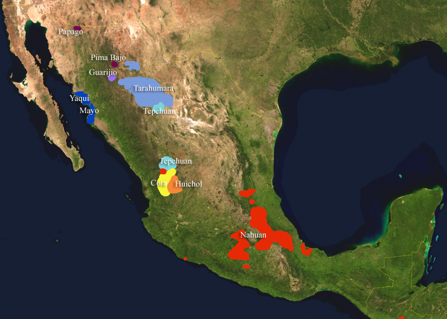 Map of the location of the Uto-Aztecan languages in Mexico